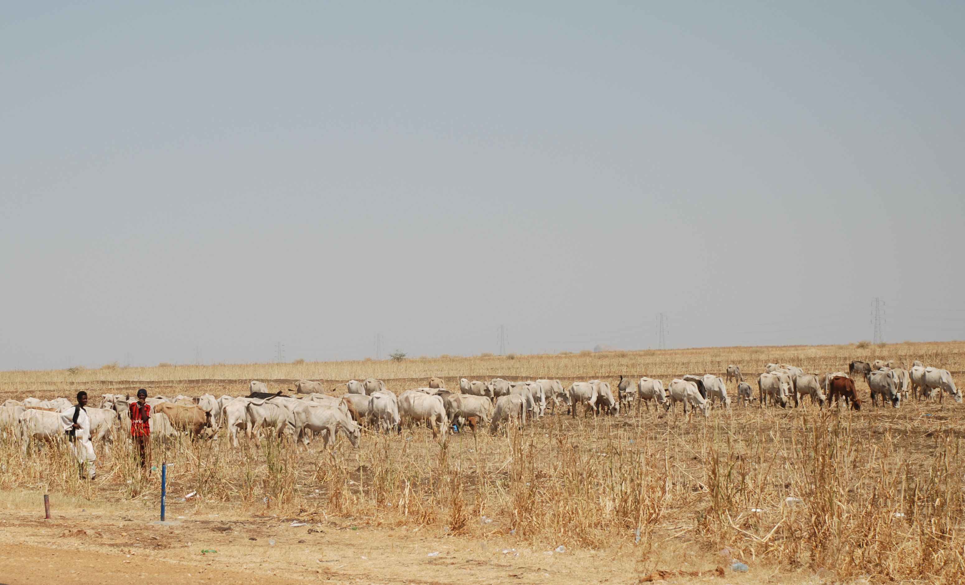 Gezira, Sudan. 50 km north of Kosti. Sorghum field